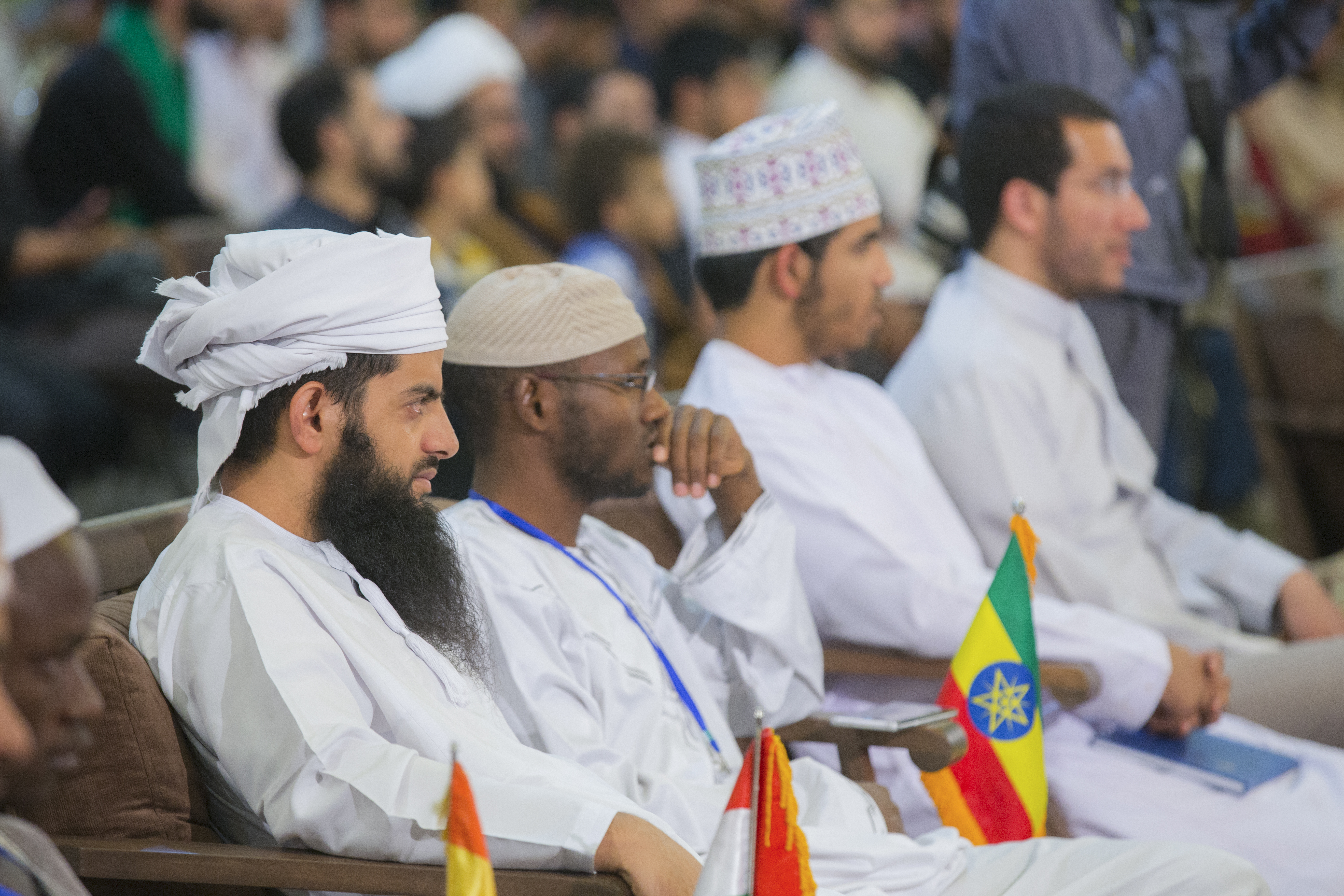 Al-Mustafa International University (MIU) (Arabic: جامعة المصطفىٰ العالمية; Persian: جامعة المصطفی العالمیه) is an international academic, Islamic and university-style seminary institute in Qom, Iran established in 1979. It has international branches and affiliate schools. Photos : International Quran Competition for Students of Islamic Seminary Schools Photographer: Mostafa Meraji